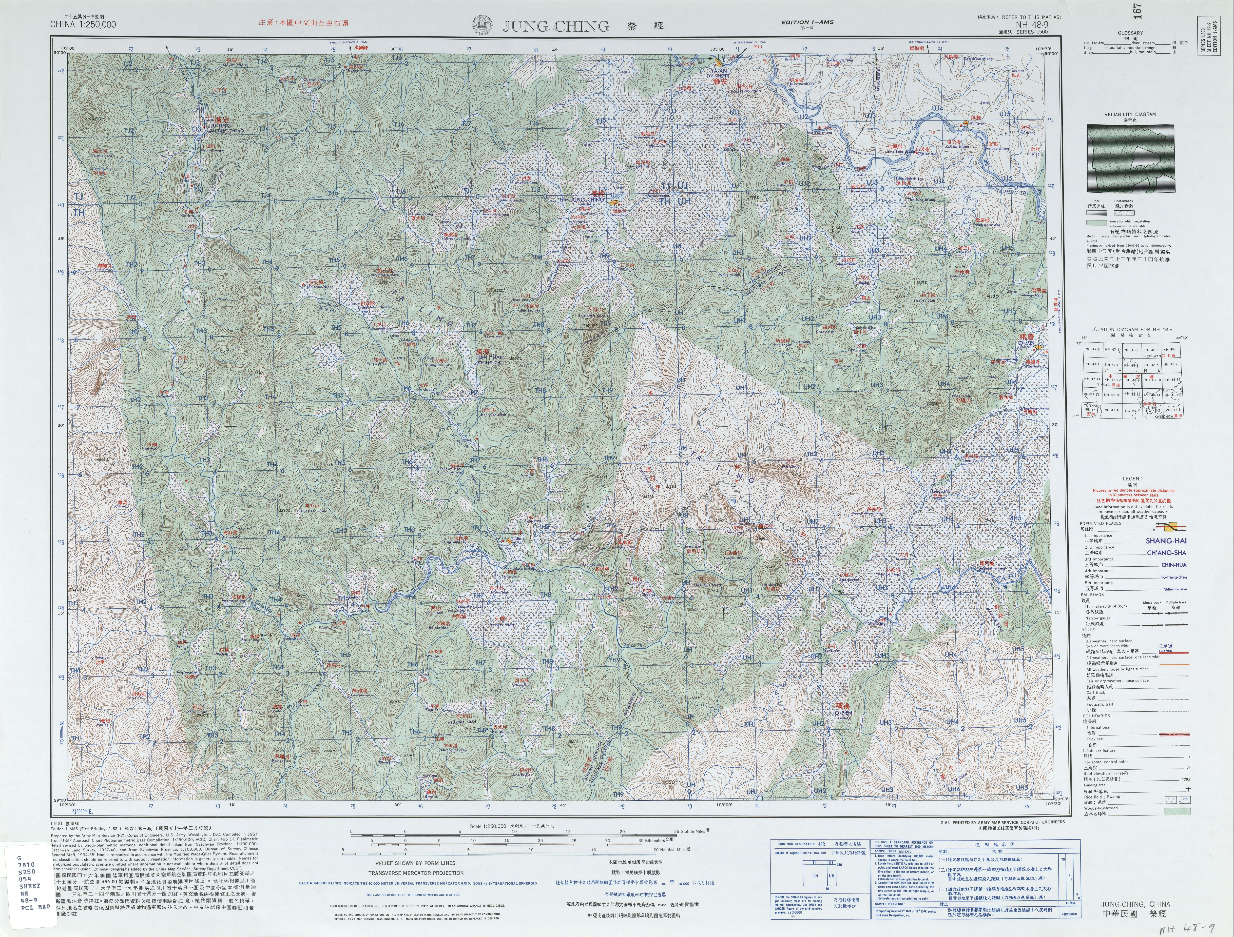 China AMS Topographic Maps